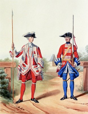 Soldier and officer of the Gardes Suisses in French Service in 1757.